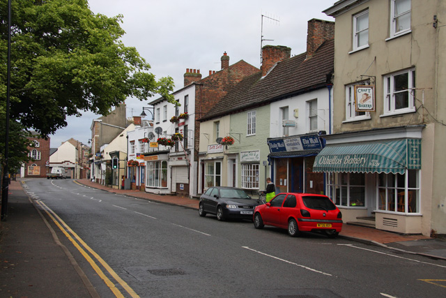 High Street, Long Sutton. A view of the shops which include a craft bakery, chinese restaurant, newsagents, assurance consultants and a public house. The paper boy reads some news on the back page before cycling to his next delivery.